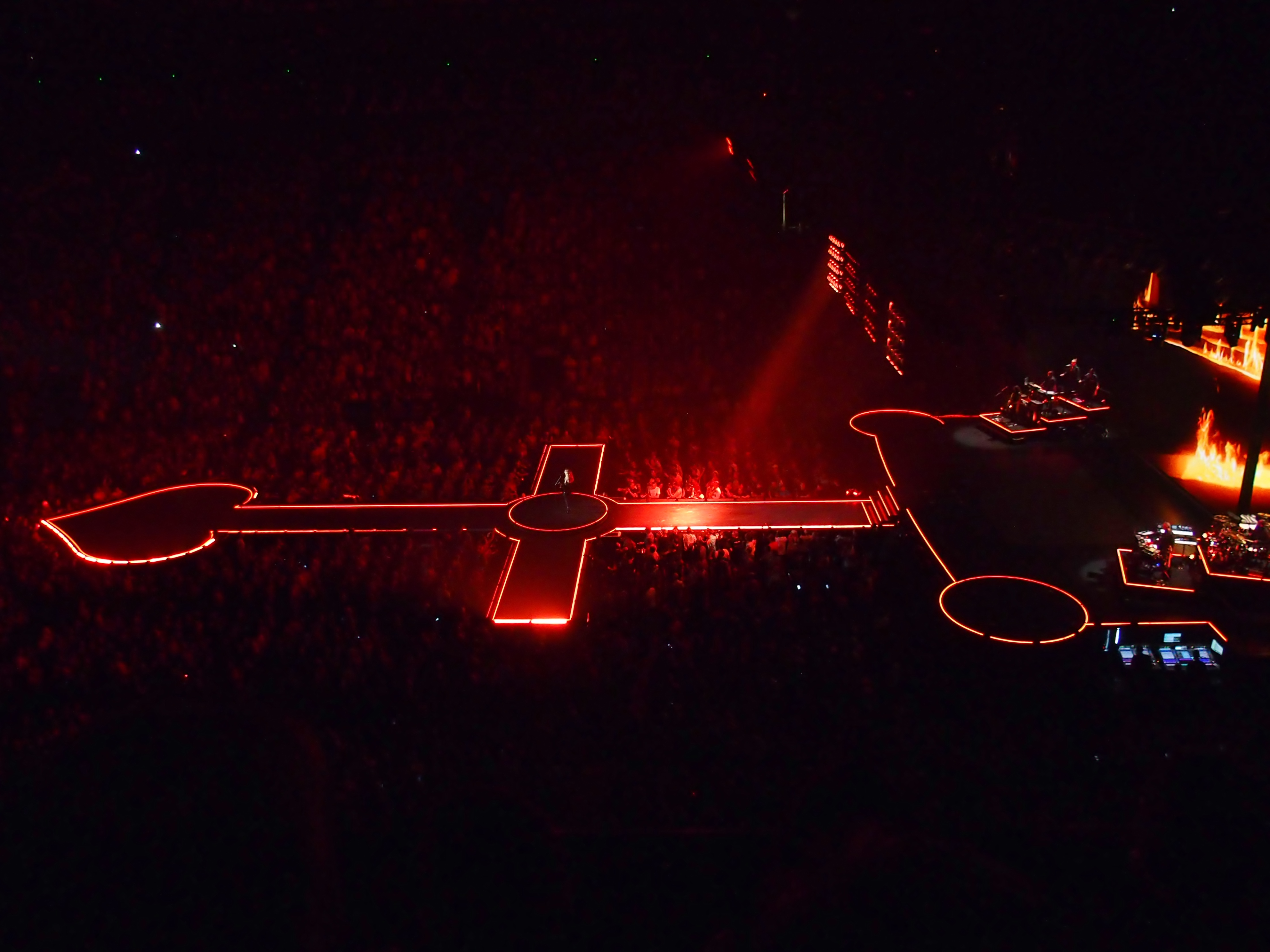 Madonna, Rebel Heart Tour, Bell Center, Olympus Stylus 1, Montréal, 10 September 2015 (10) Madonna performing on the Rebel Heart Tour